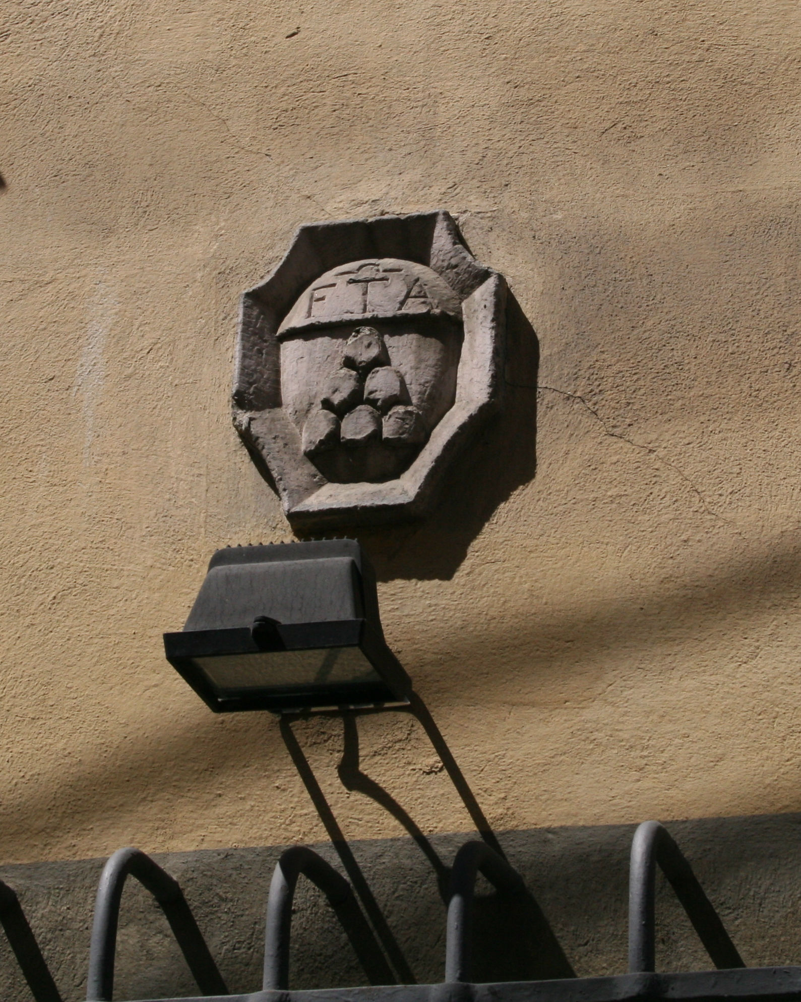 Holy Milk Brotherhood of Montevarchi coat